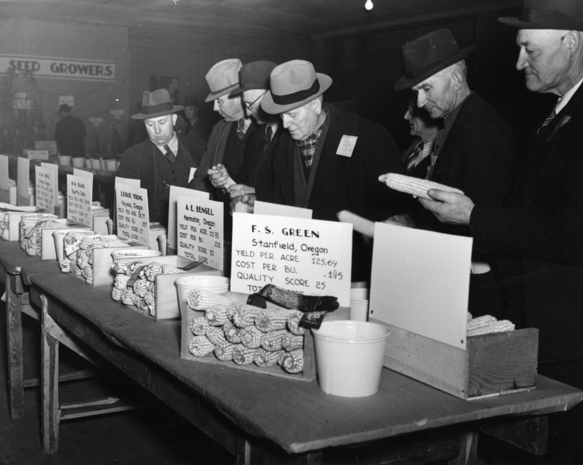 Original Collection: Harriet's Collection Item Number: HC0970 Image Description: Extension Service sponsored Corn Show. You can find this image by searching for the item number by clicking here. Want more? You can find more digital resources online. We're happy for you to share this digital image within the spirit of The Commons; however, certain restrictions on high quality reproductions of the original physical version may apply. To read more about what “no known restrictions” means, please visit the Special Collections & Archives website, or contact staff at the OSU Special Collections & Archives Research Center for details.